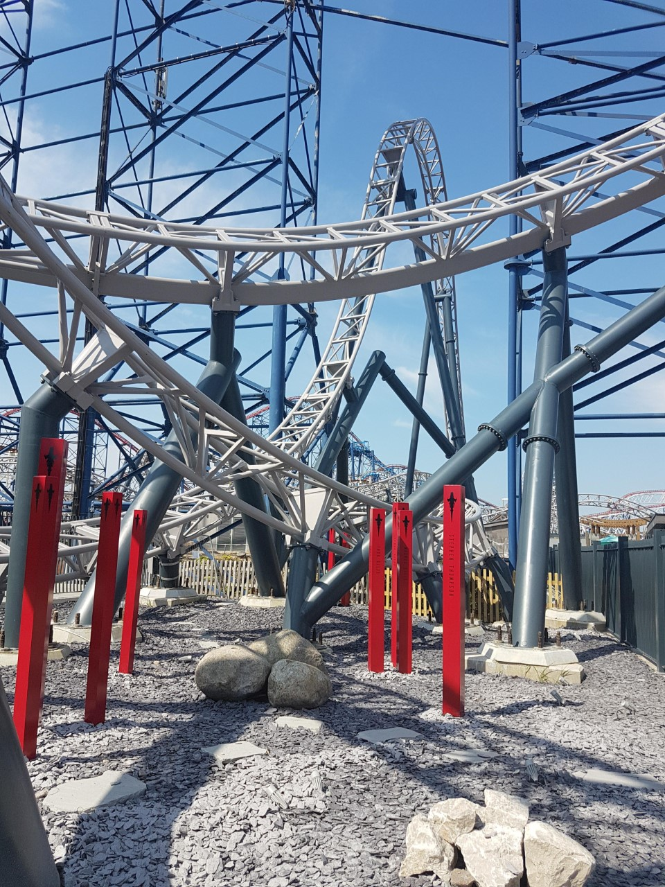 Icon at Blackpool Pleasure Beach featuring Japanese Garden